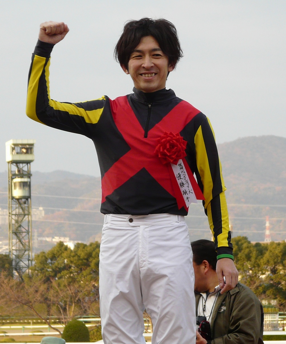 Yuichi-Fukunaga20111211